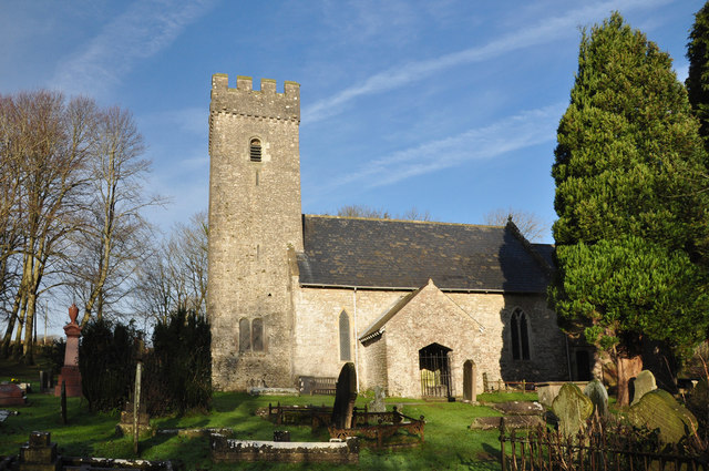 Parish Church of St. Illtyd - Llantrithyd Constructed of random limestone with the roofs of the chancel and nave being clad in natural slate. The Church has 12th century origins. The chancel and nave were rebuilt in the 14th century as was the tower. In the 18th century the tower was restored and a gallery inserted at the west end of the nave accessed from the south face of the tower.